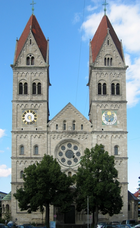 St. Benno in Munich, Germany